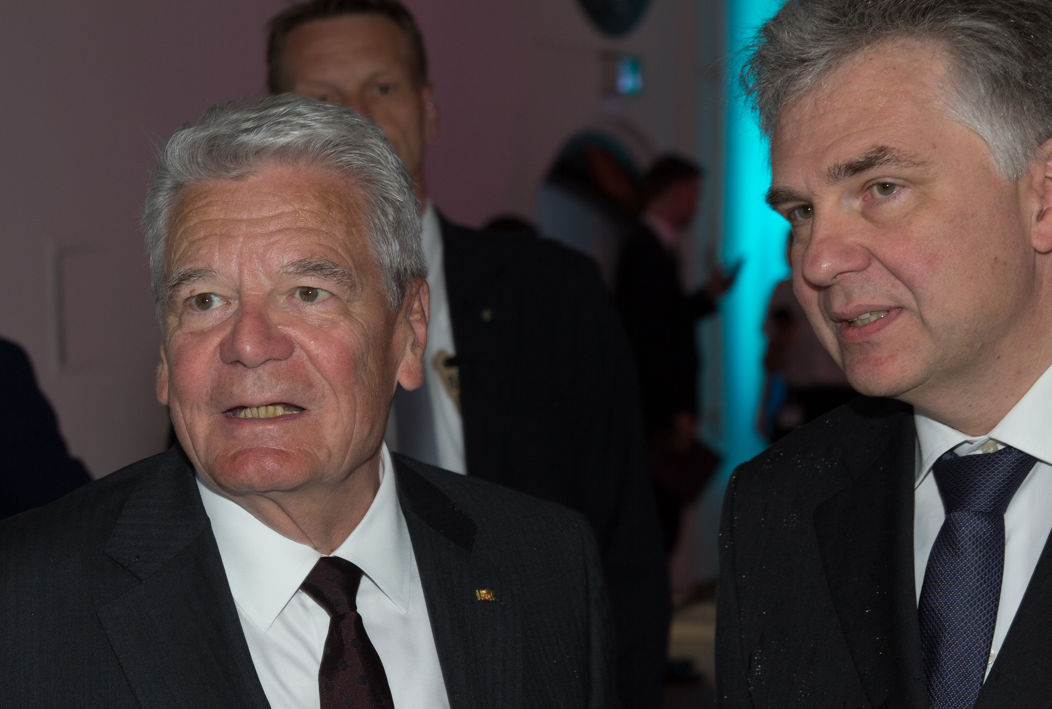 Ceremony 60 years Friedrich Naumann Foundation in Berlin: Joachim Gauck